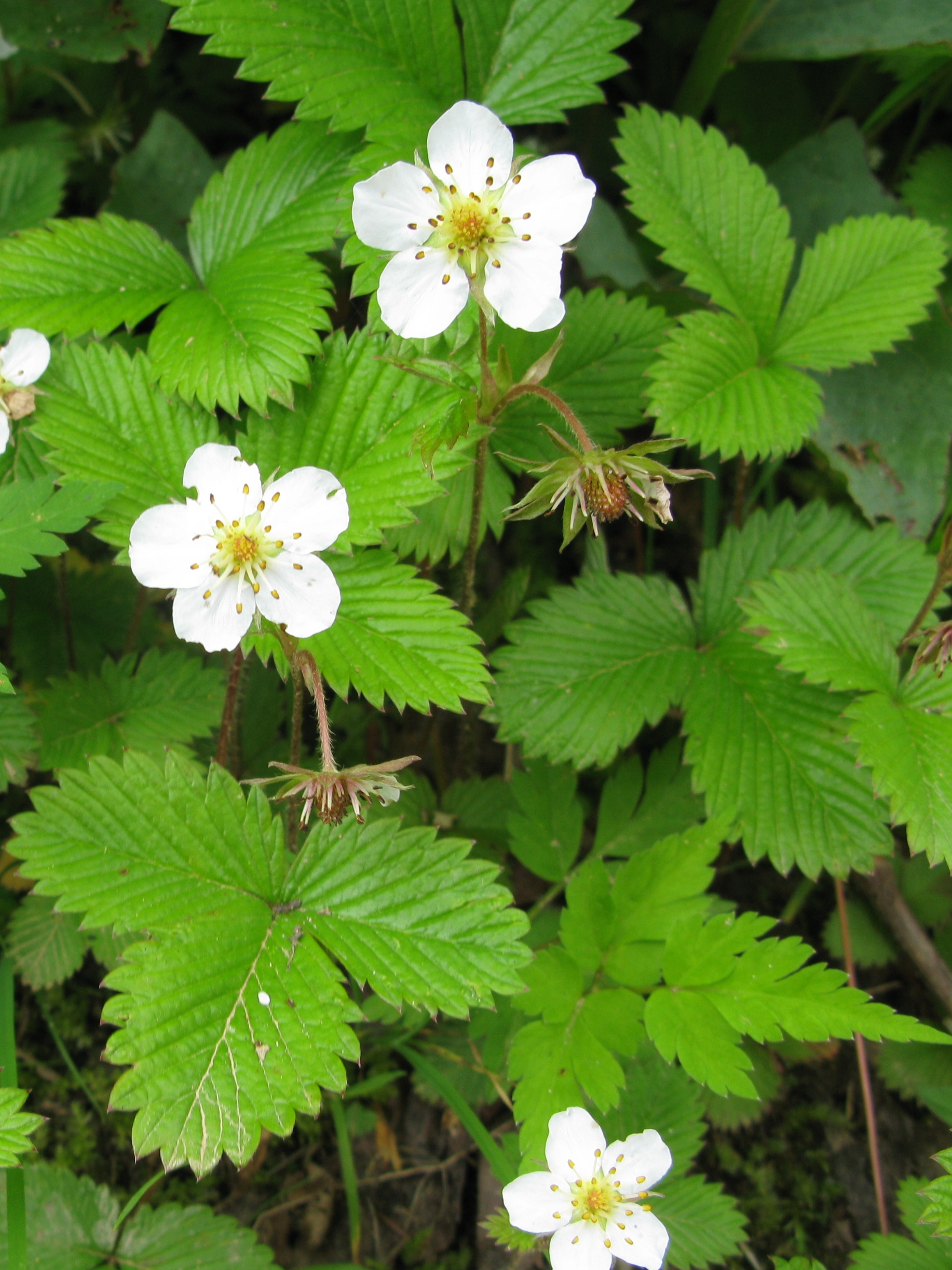 Fragaria nipponica, Mt. Hiuchigatake, Fukushima pref., Japan